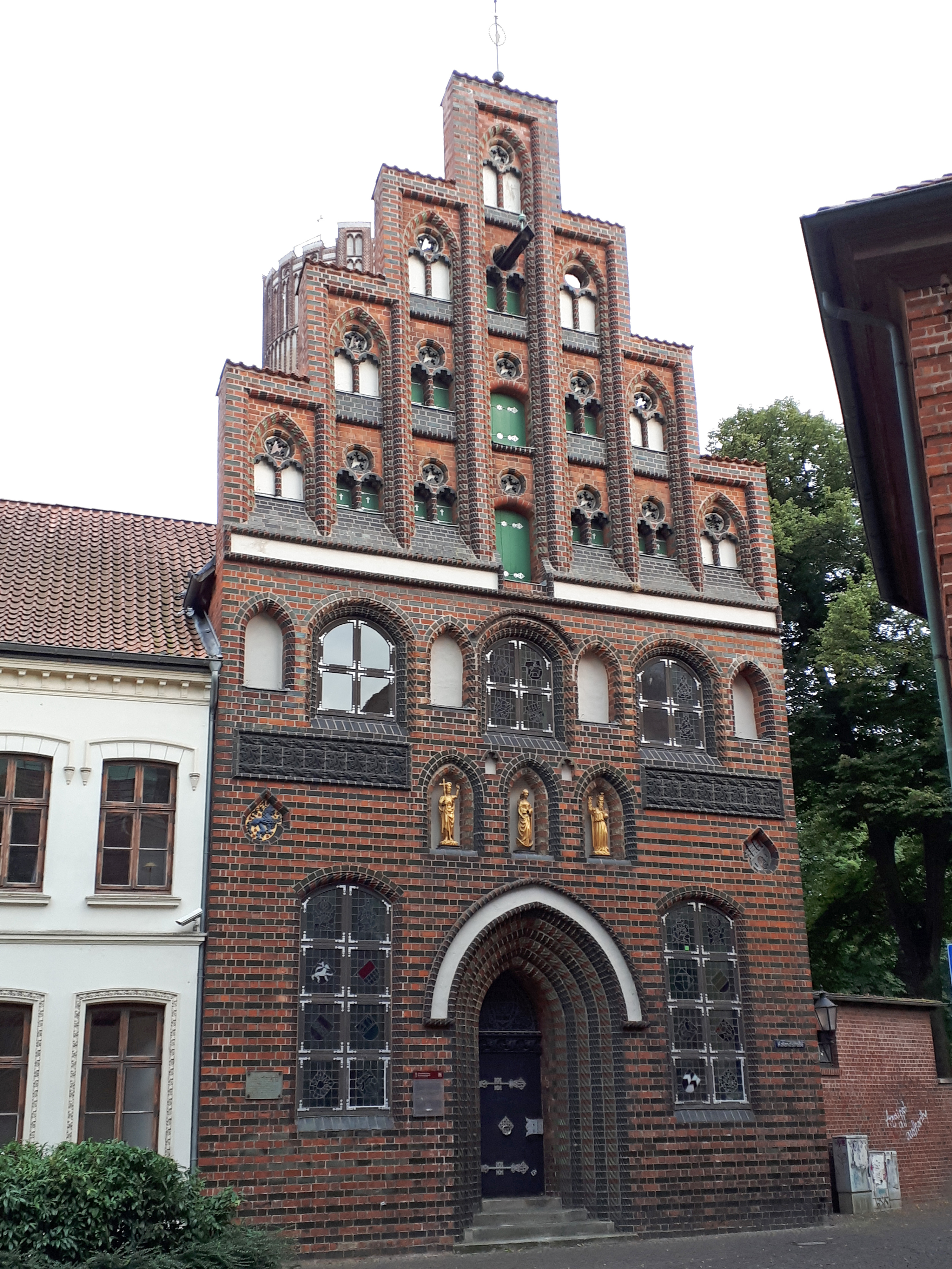 Kaland, Haus der Kalandbrüderschaft in Lüneburg, Kalandstraße 12, Nordfassade